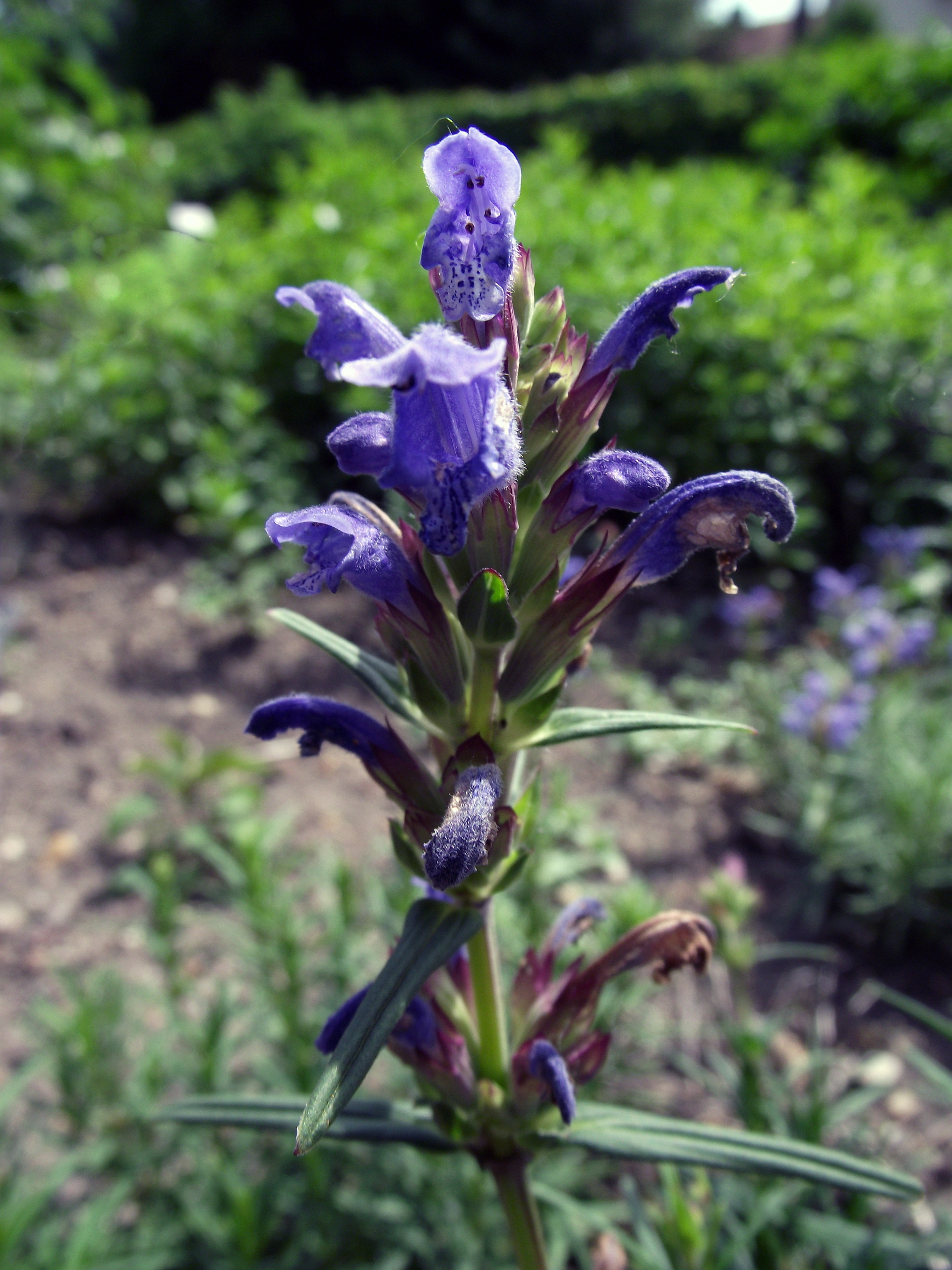 Dracocephalum ruyschiana, Flower, Inflorescence